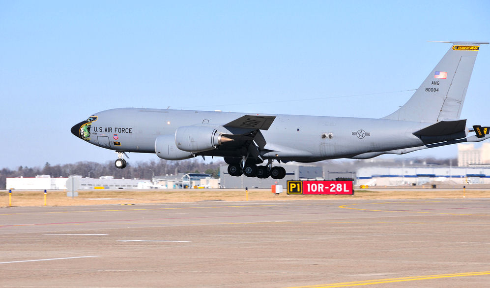 CORAOPOLIS, Pa. -- A KC-135 Stratotanker belonging to the 171st Air Refueling Wing lands at Pittsburgh International Airport on January 3, 2011. One of the unit's aircraft has been affixed with decals from the National Hockey League in preparation for a flyover for the Winter Classic event held in Pittsburgh January 1. (U.S. Air Force photo by Master Sgt. Ann Young/Released)